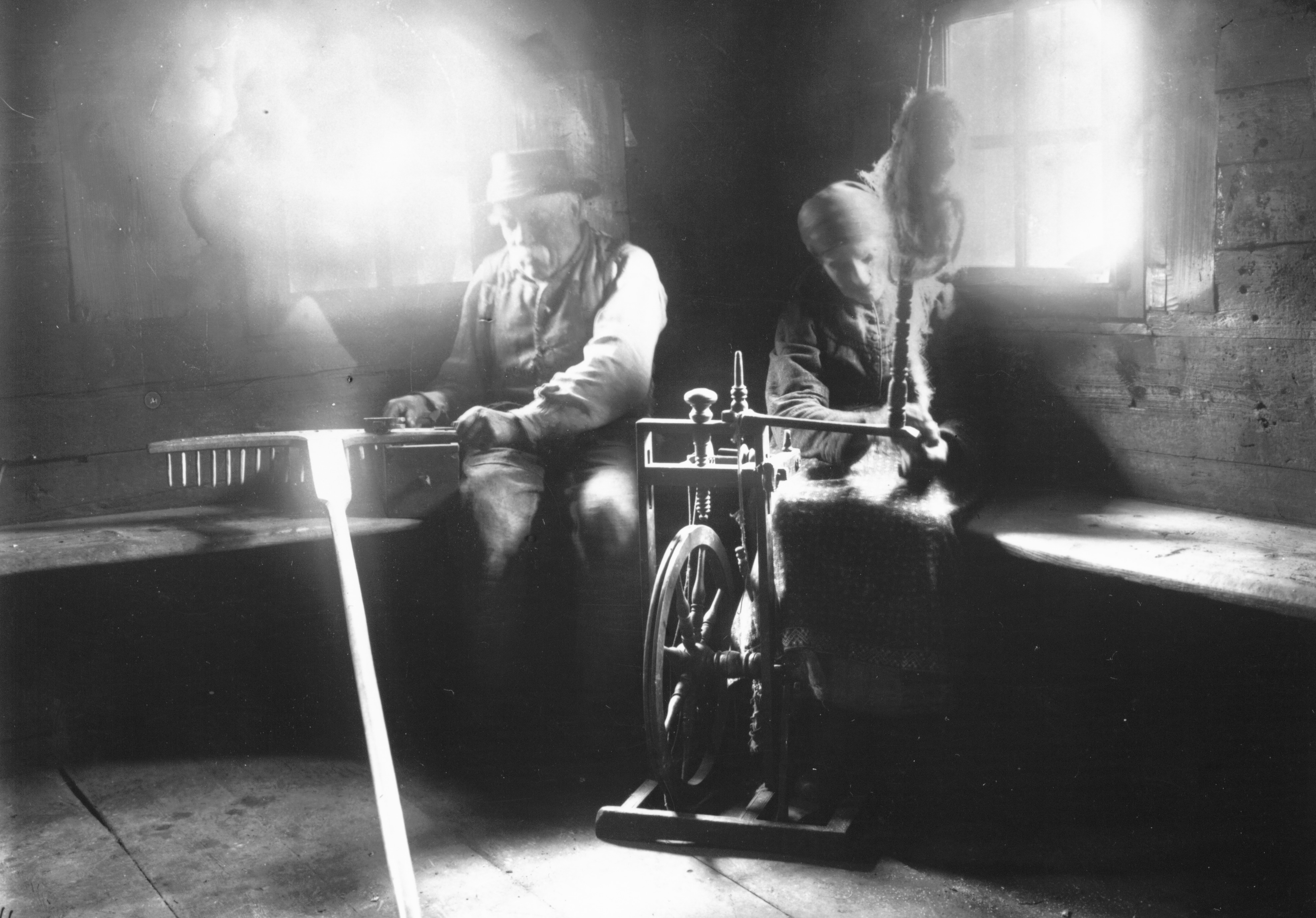 Typical working at old farmer in Upper Carinthia in the 1920s. The man repaired agricultural equipment, here's a hay rake. The woman spins wool on a spinning wheel. They are sitting on a wooden bench in the wooden farmhouse. This shows 1925-1927 by folklorist Oswin Moro taken photo of the blacksmith Johann Hinteregger (16.11.1840-04.12.1930), who run the small company from 1874 to 1919 and his wife Barbara Hinteregger nee Gruber (19.08.1845-19.04.1927). Forging and agriculture are in St. Oswald in Bad Kleinkirchheim, a small village in the Central Eastern Alps (Nock Mountains) Carinthia / Austria / European Union.